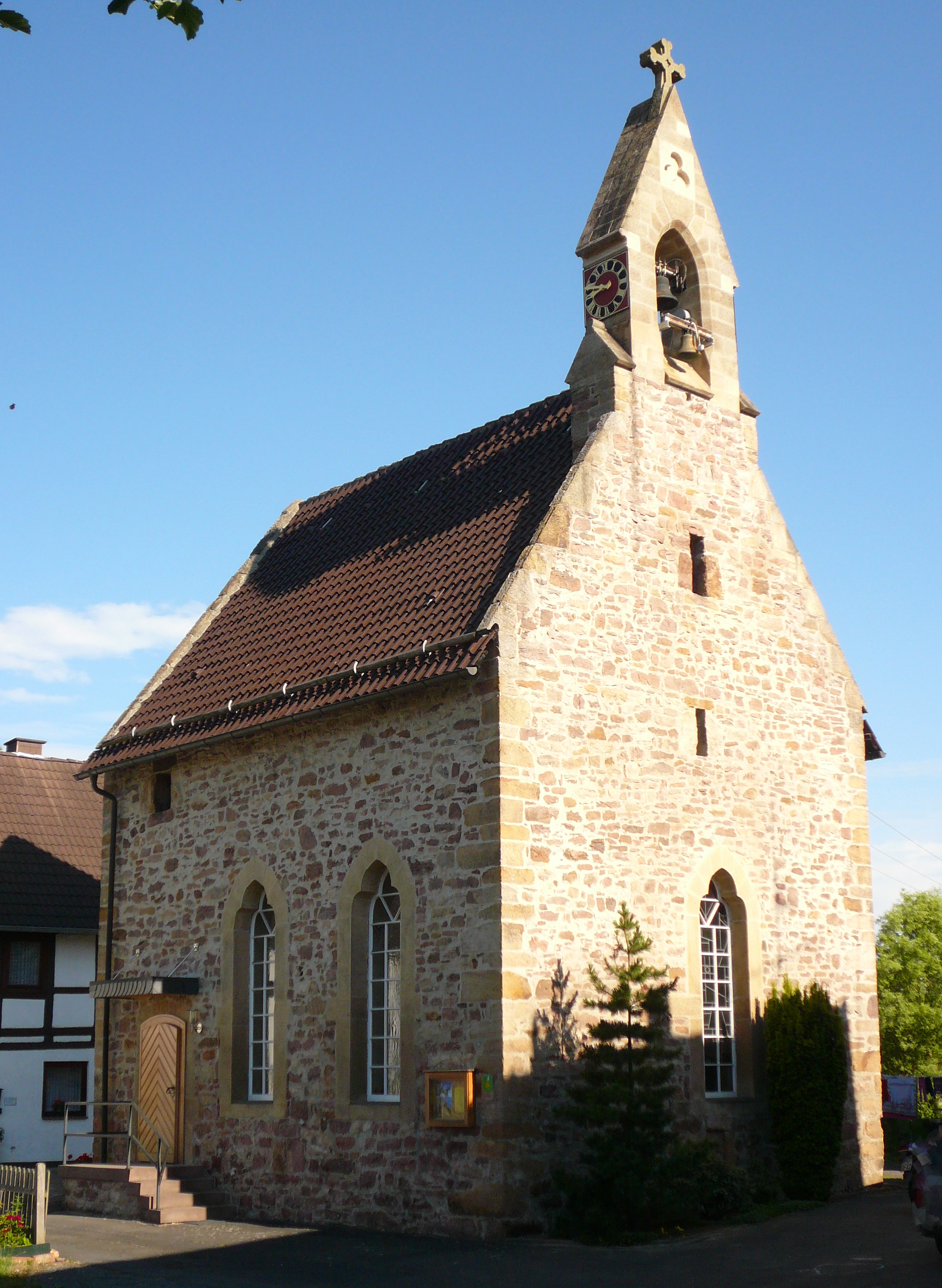 Chapel in Verliehausen, Lower Saxony